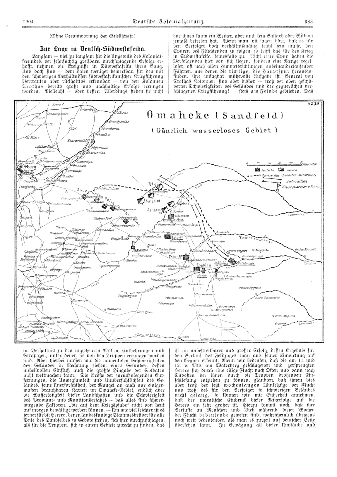 Article on the Herero war with description of the situation in Deutsche Kolonialzeitung (German colonial newspaper) No. 39 of September 29, 1904